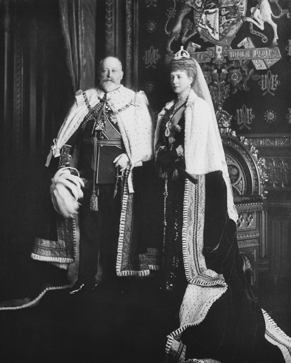 Edward VII and Alexandra of Denmark at the State Opening of Parliament in 1901